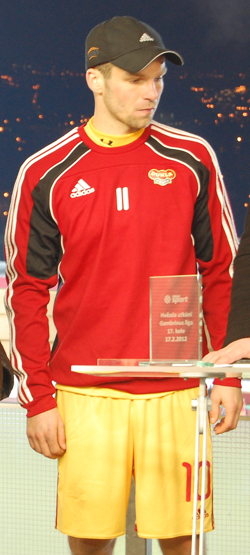 Miroslav Podrazký of FK Dukla Praha receiving the man of the match award after the home game against FK Viktoria Žižkov.